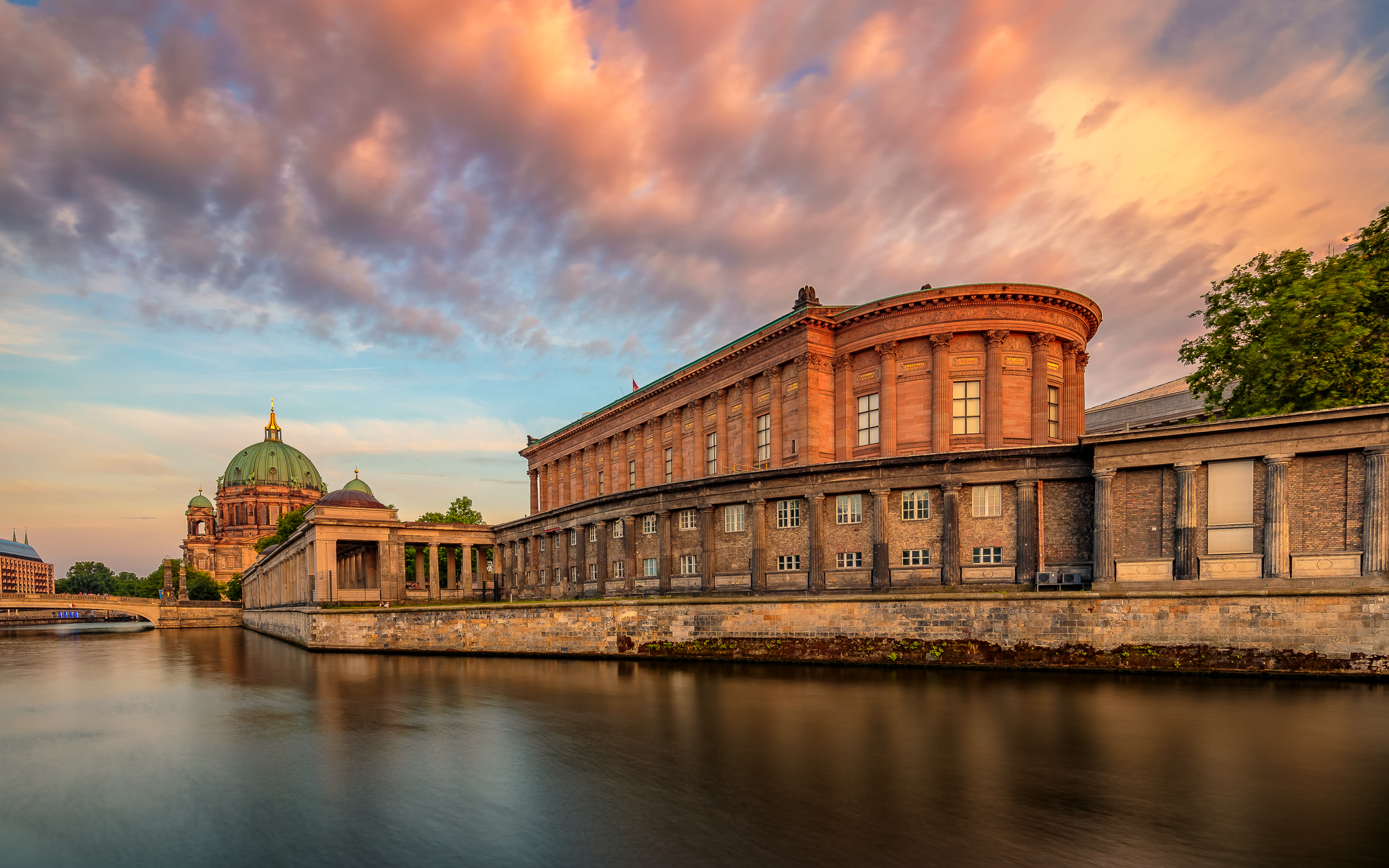 Rear view of Alte Nationalgalerie (Old National Gallery) in Berlin. On the left is Berlin Cathedral and Friedrichs Bridge.